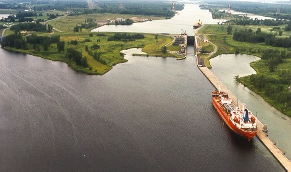 Seaway lock